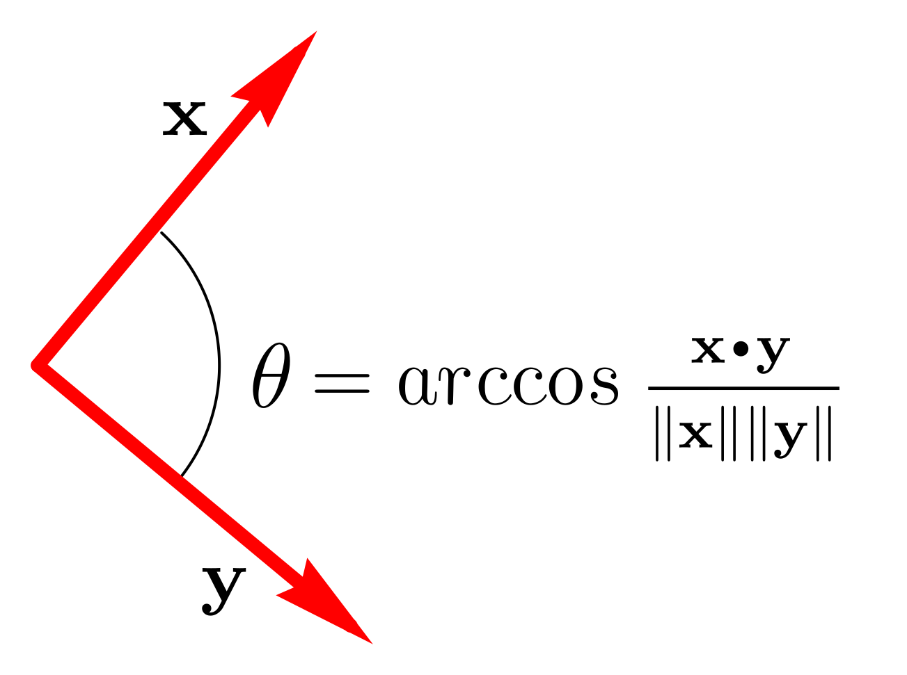 defining the inner product